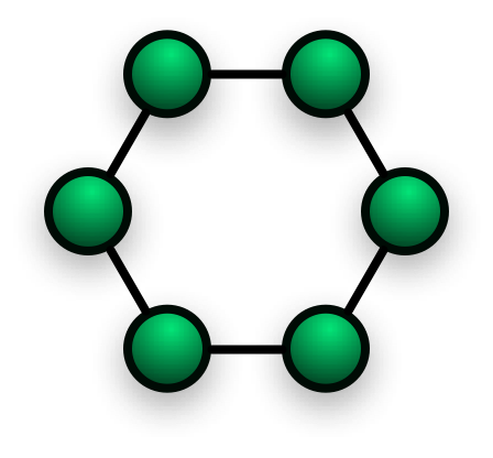 Created by me using OmniGraffle and released into the public domain. Original file available on request.